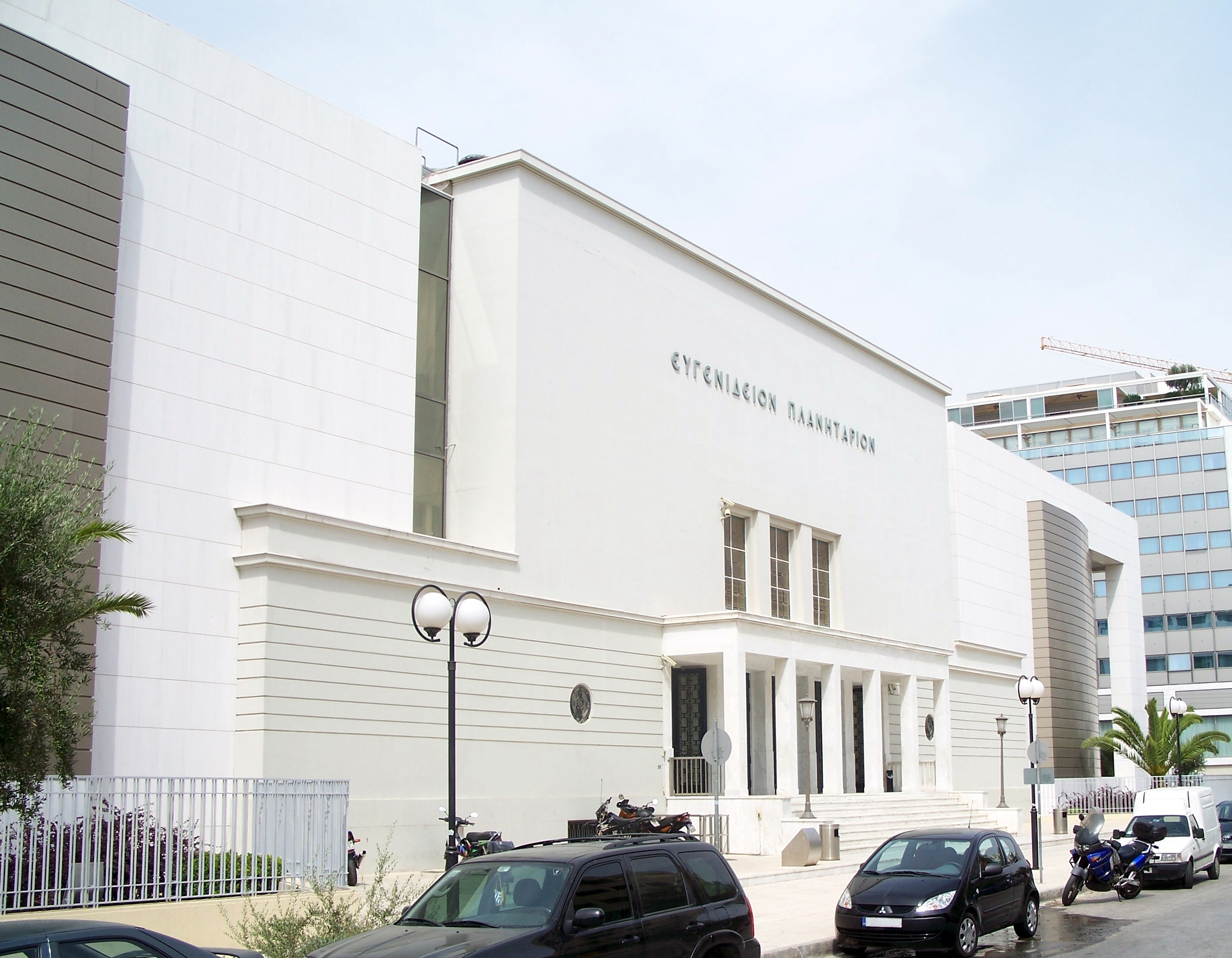 The Evgenides Foundation planetarium,located in Faliro, Athens